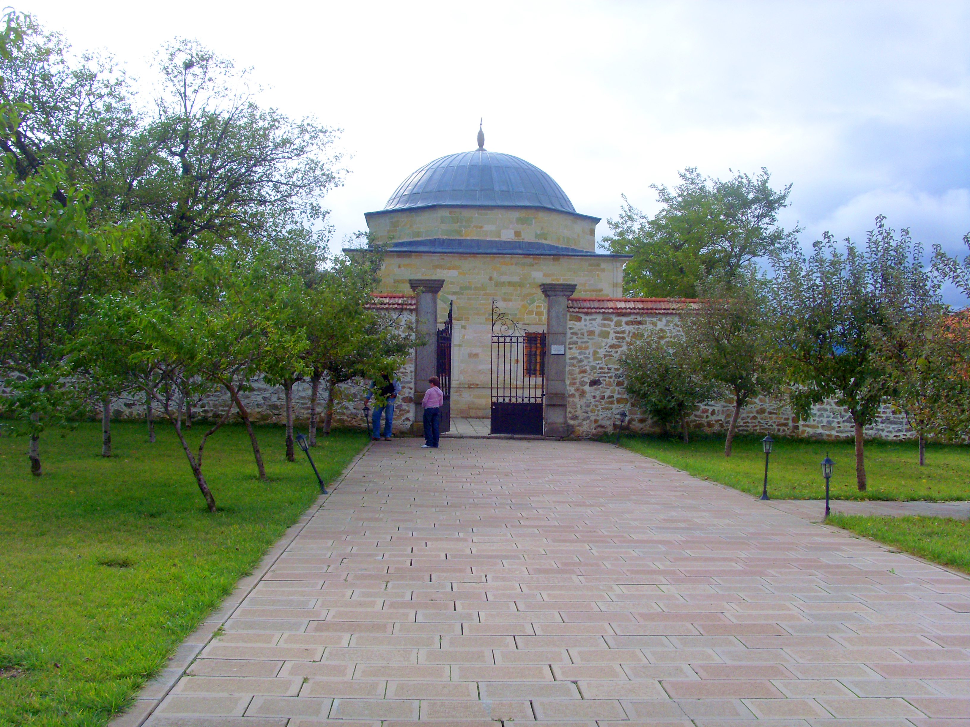 photo: Arian Selmani